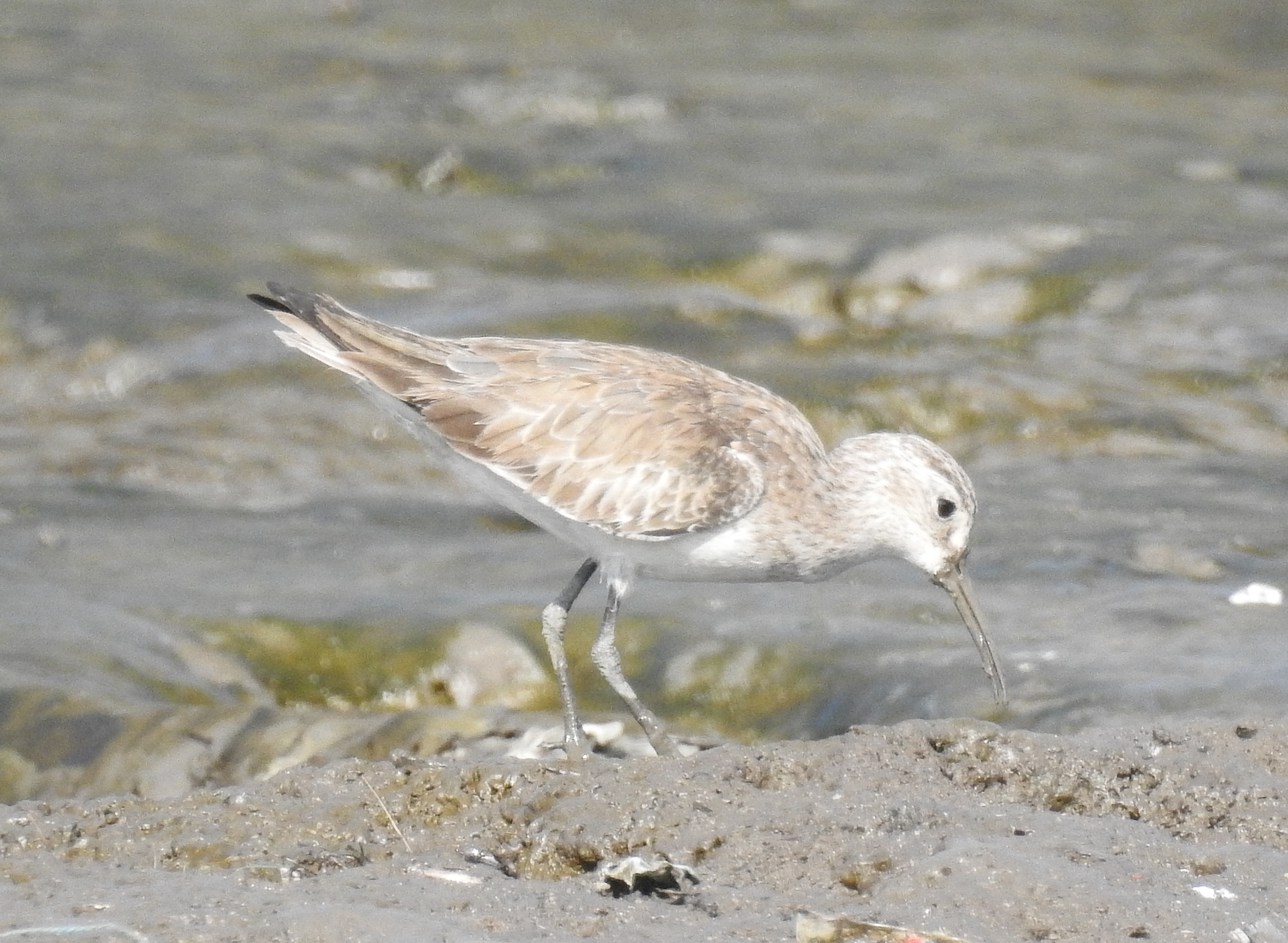 Broad-billed Sandpiper Limicola falcinellus. Photographed by Dr. Raju Kasambe at Mahul-Sewri Mudflats, Mumbai. This is an Important Bird area (IBA) as designated by BNHS and BirdLife International.